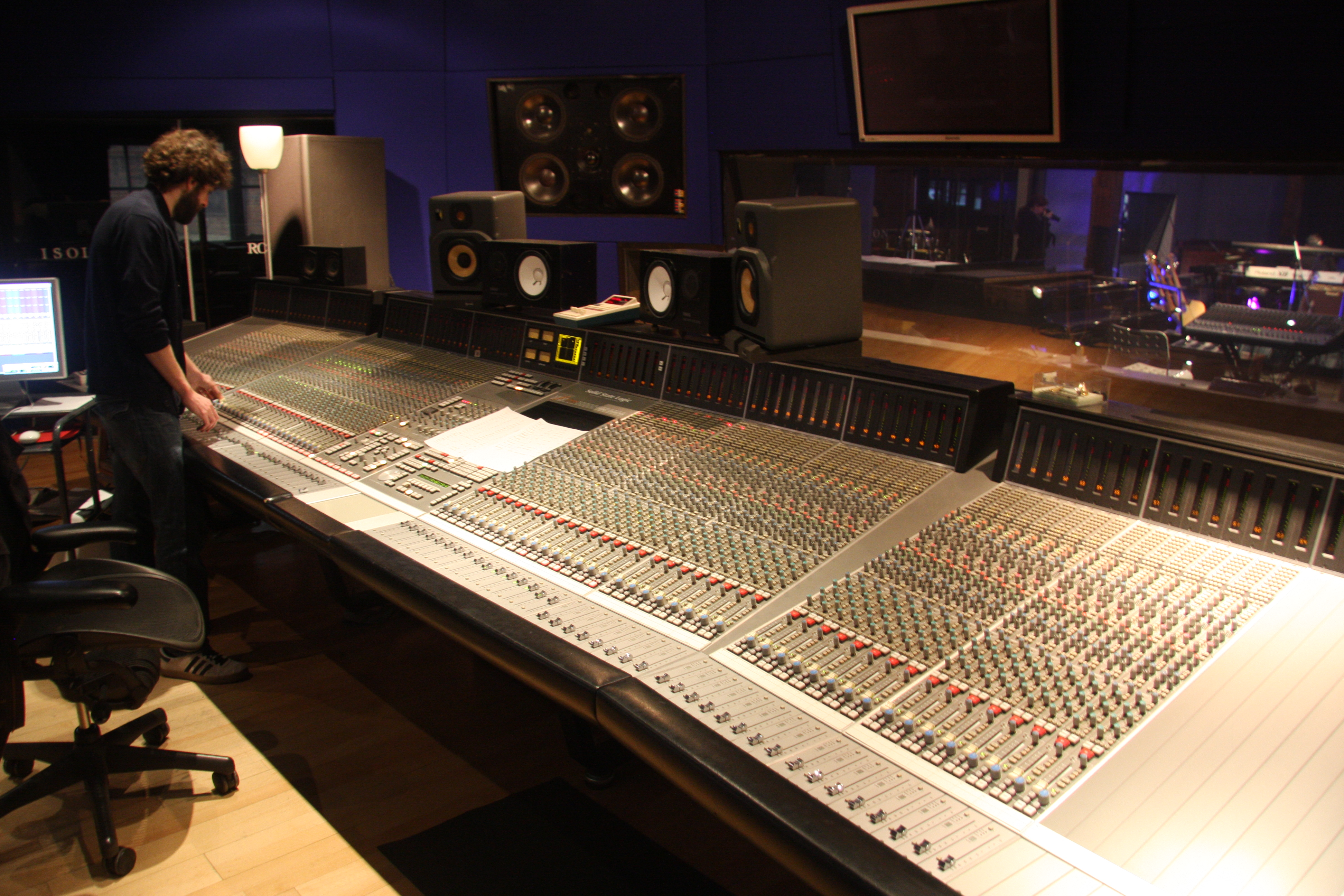 The control room at Hookend Manor recording studio, Oxfordshire, UK. The main console is a 64-channel SSL (Solid State Logic) desk.